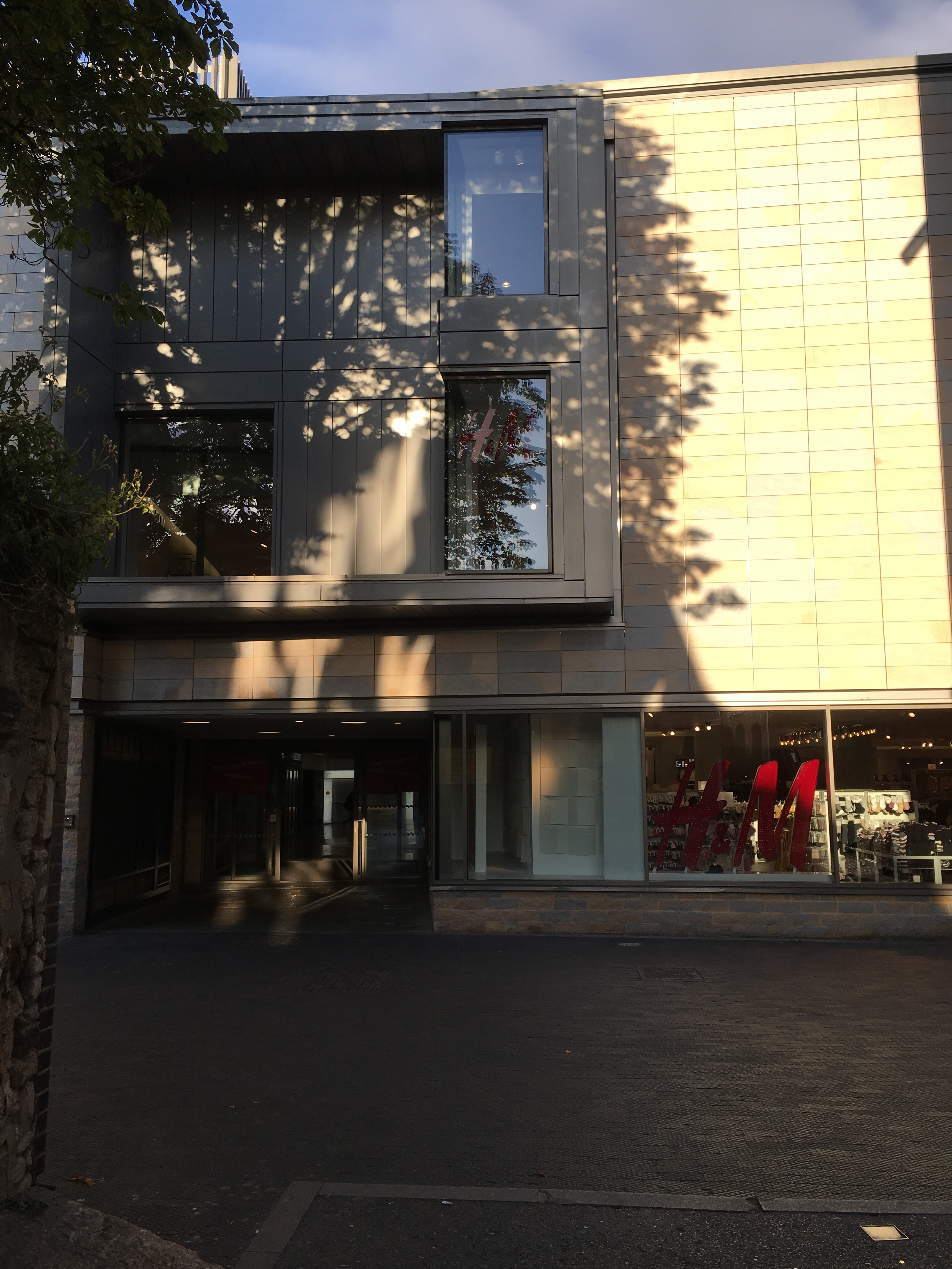 The Clarendon Centre, Oxford, viewed from Shoe Lane in September 2019, showing the 2010s extension. The branch of H&M takes up all three floors of this extension. The entrance to the centre is lower-left.